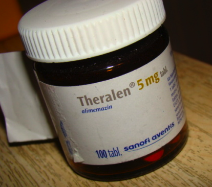 Theralen (alimemazine) bottle